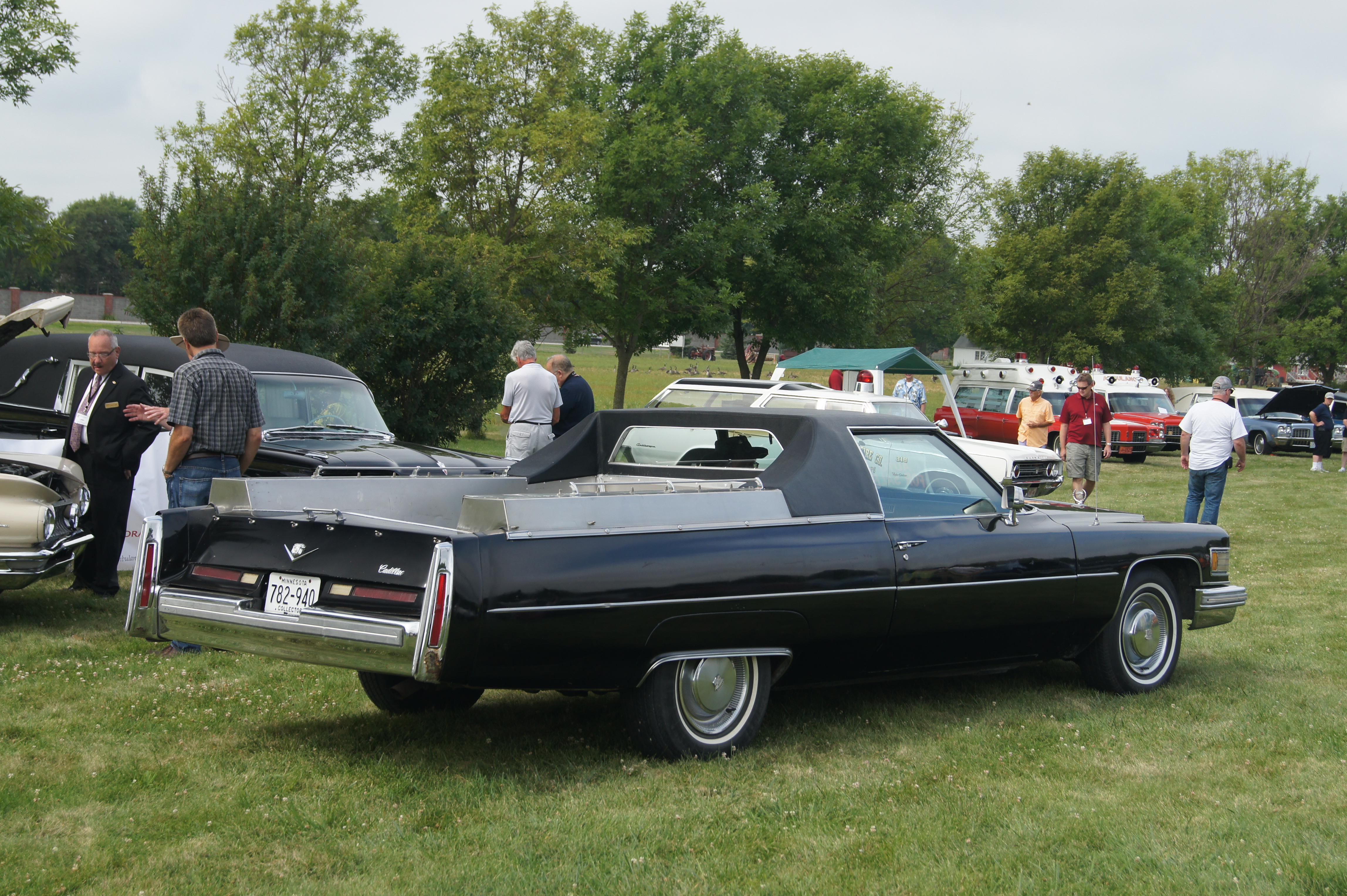 Professional Car Society International Meet 2014 Respond to Rochester Host: Northland Chapter (Celebrating Northland's 25th Anniversary) PCS Concours D'Elagance Show & Shine August 16, 2014 Olmstead County History Center Rochester, Minnesota You can see more car pictures by clicking on the link below